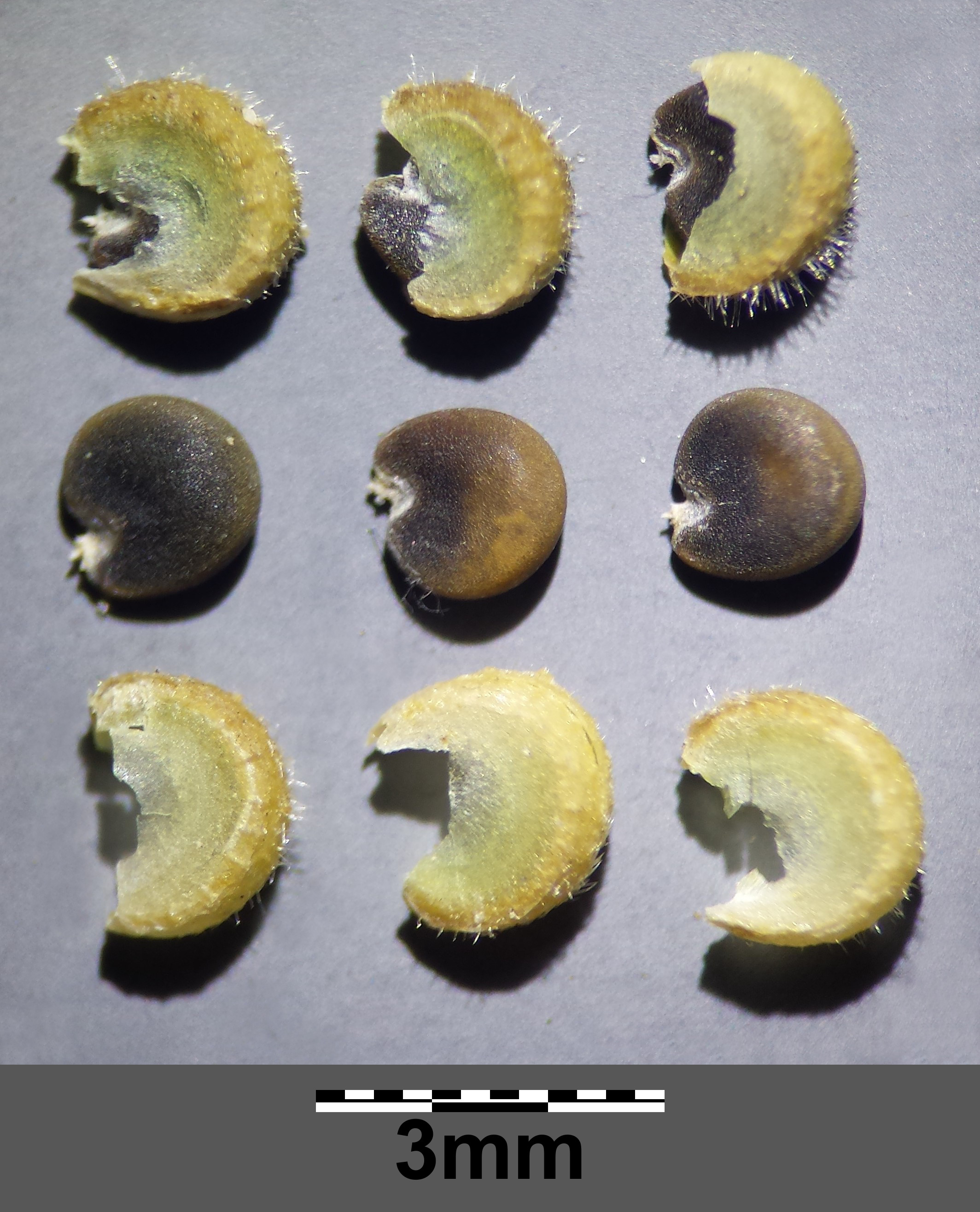 Fruitlets/seeds Taxonym: Malva neglecta (ss Fischer et al. EfÖLS 2008 ISBN 978-3-85474-187-9) Location: Wartberg near Ulrichskirchen, district Mistelbach, Lower Austria - ca. 240 m a.s.l. (leg.: 2015-11-08) Habitat: field